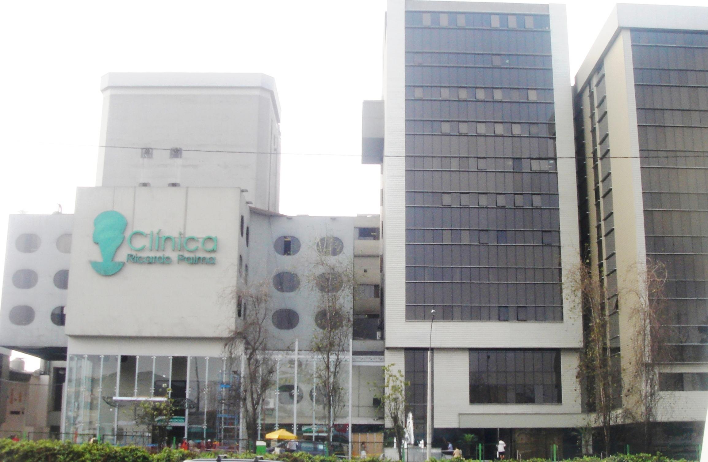 Clinic Ricardo Palma in San Isidro District, Lima, Peru.